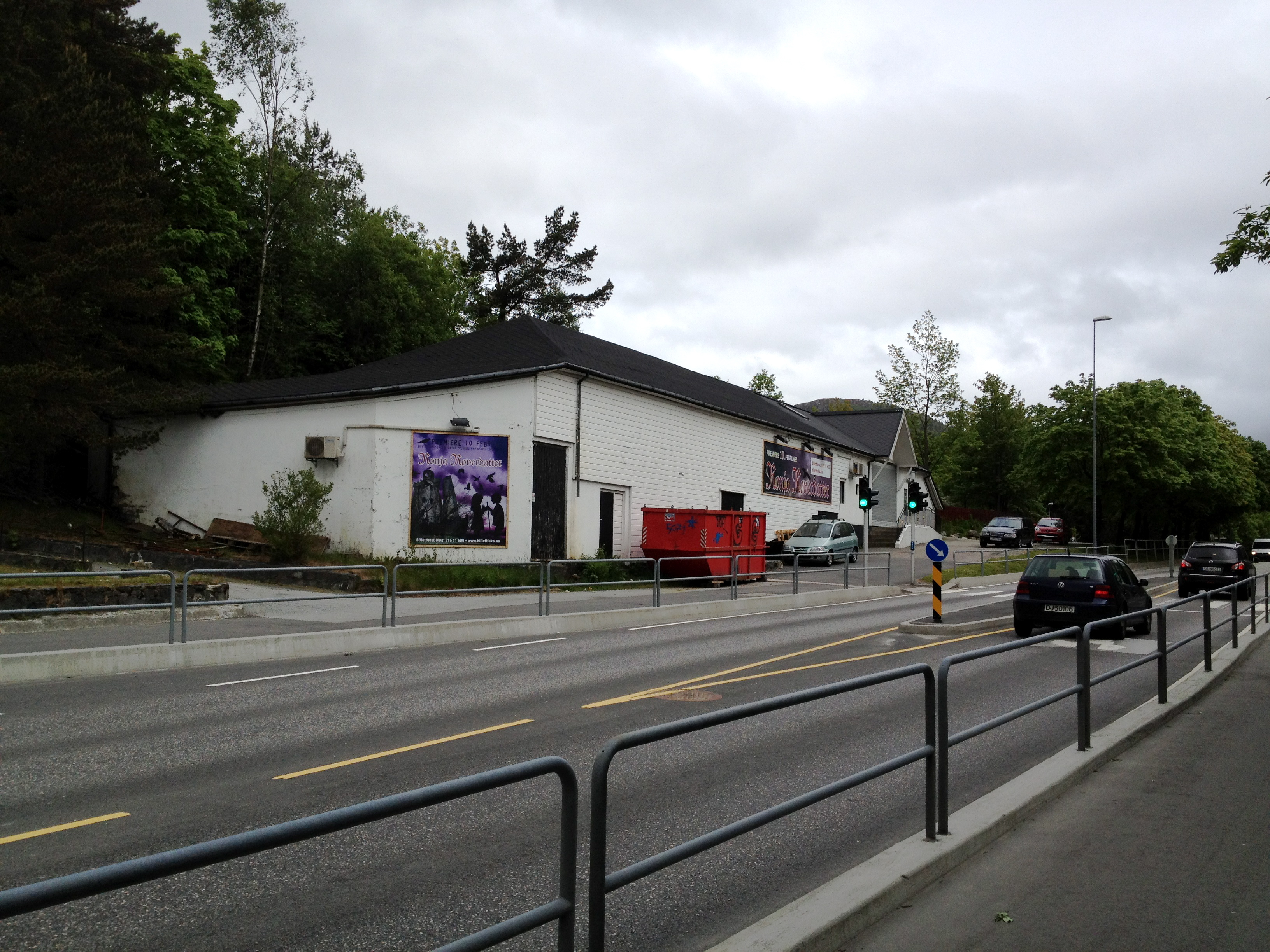 Fyllingsdalen nye teater in Bergen, Norway